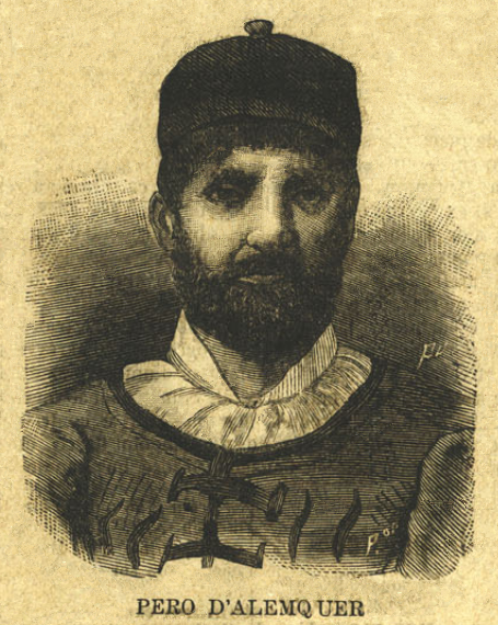 19th-century retrospective portrait of 15th-century Portuguese explorer Pêro de Alenquer, by Francisco Pastor.